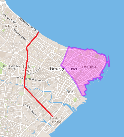 Map of central George Town, Penang, with George Town Inner Ring Road marked in red. The purple zone denotes the city's UNESCO World Heritage Site.